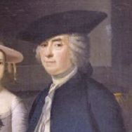 232 by 400 cm; signed and dated lower right: H. Pickering / pinxit 1755